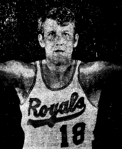 Professional Basketball player Darrall Imhoff.